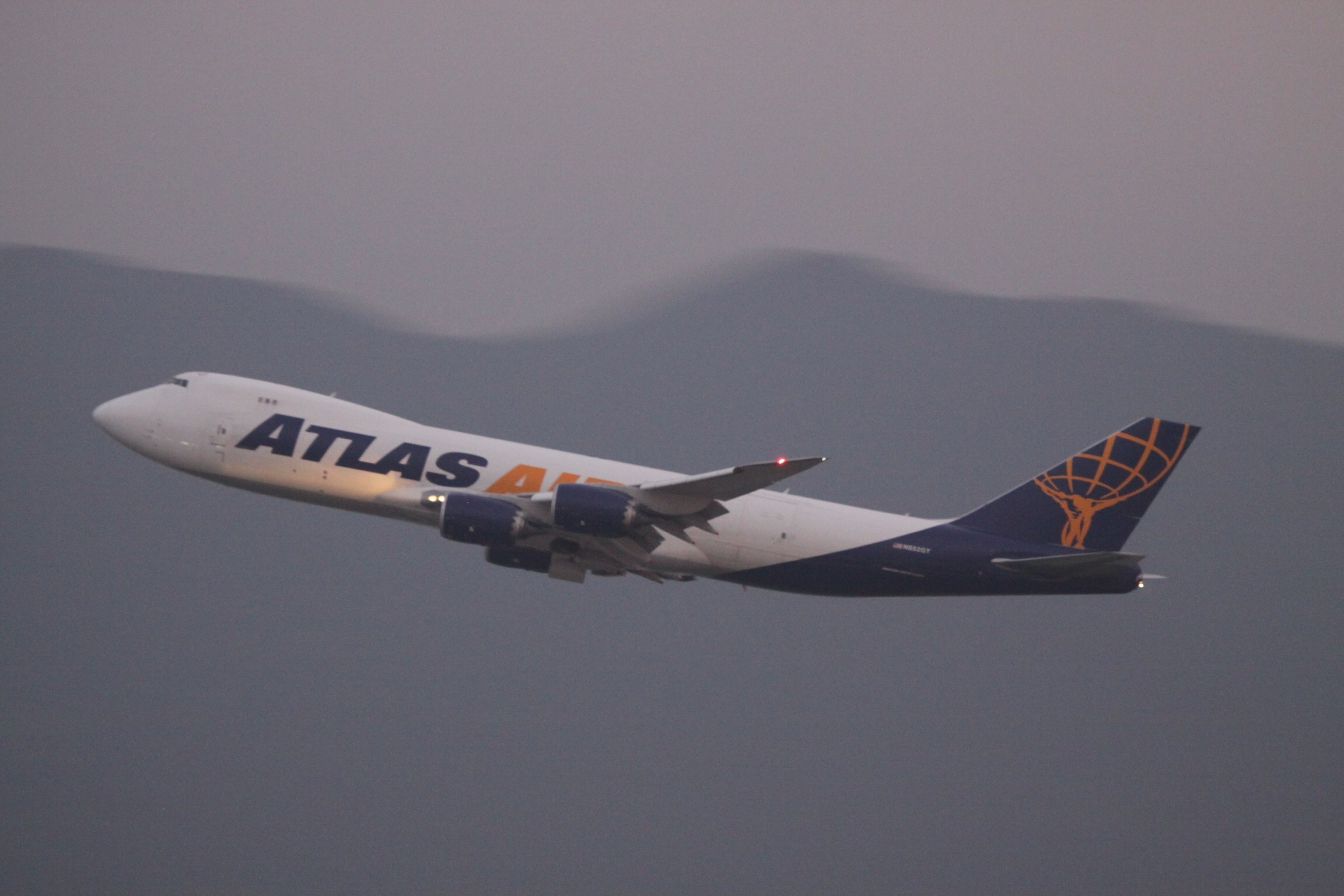 At Hong Kong Chek Lap Kok